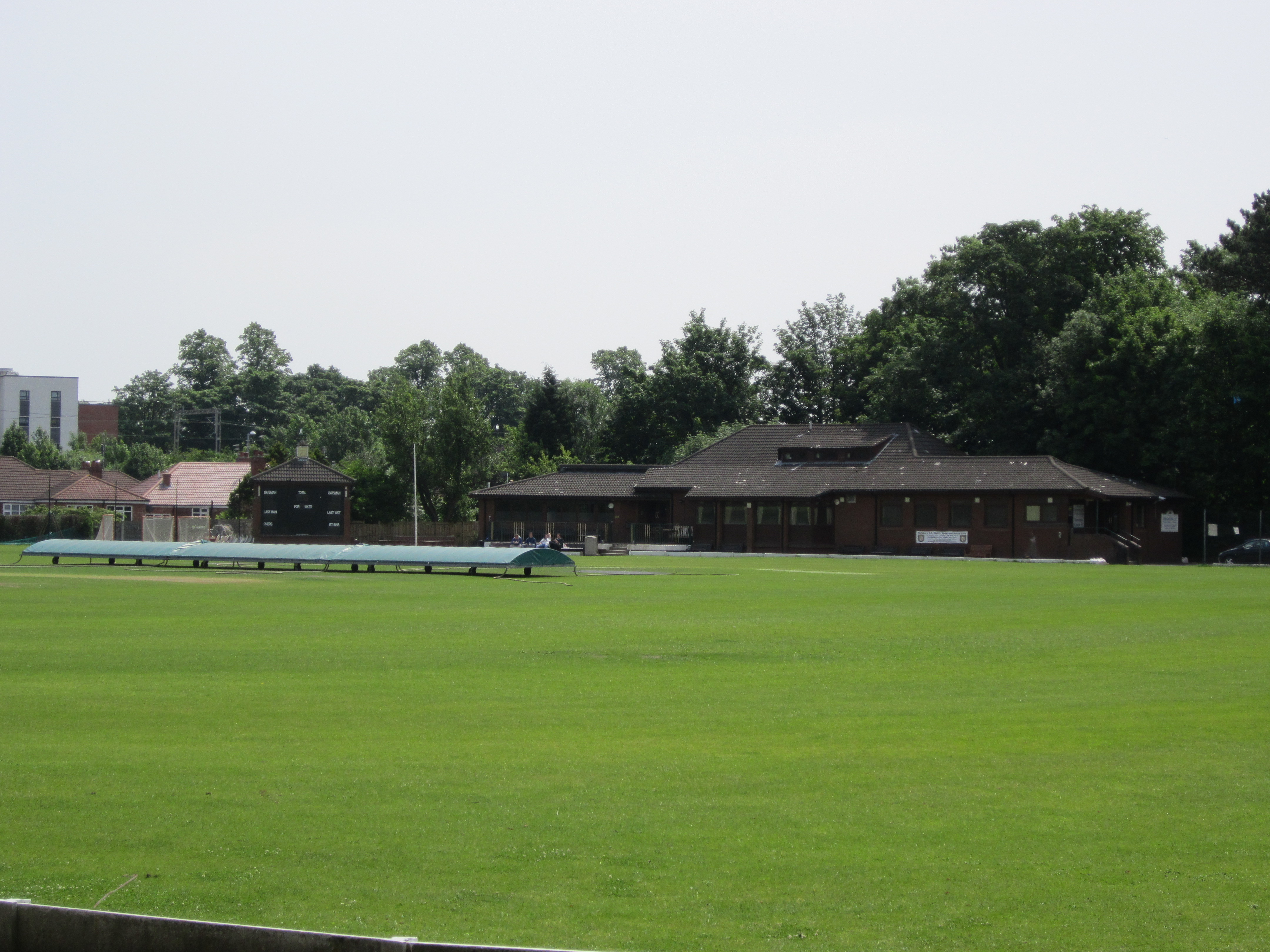 Photo taken at Didsbury Cricket Club, Manchester, England.